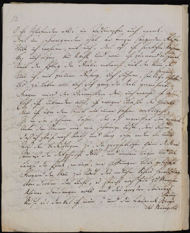 Manuscript of Friedrich Hölderlin: Der Archipelagus, page 12. From Homburg